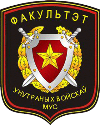 Patch of the Internal Troops Department of the Military Academy of Belarus (from 2008)